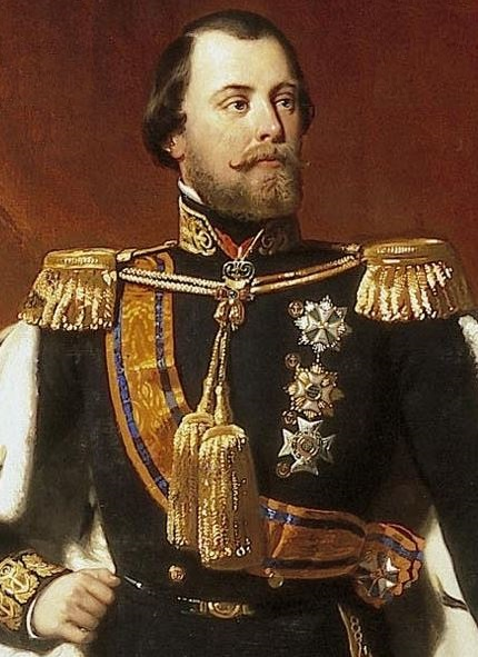 Coronation portrait of Willem III of the Netherlands detail